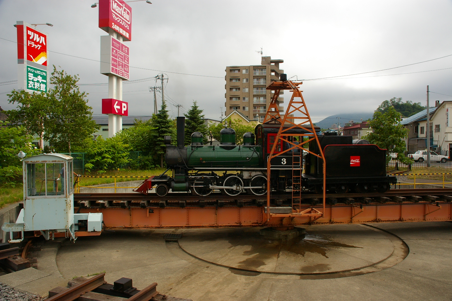 Truntable & "IronHorse" in Otaru synthesis museum.